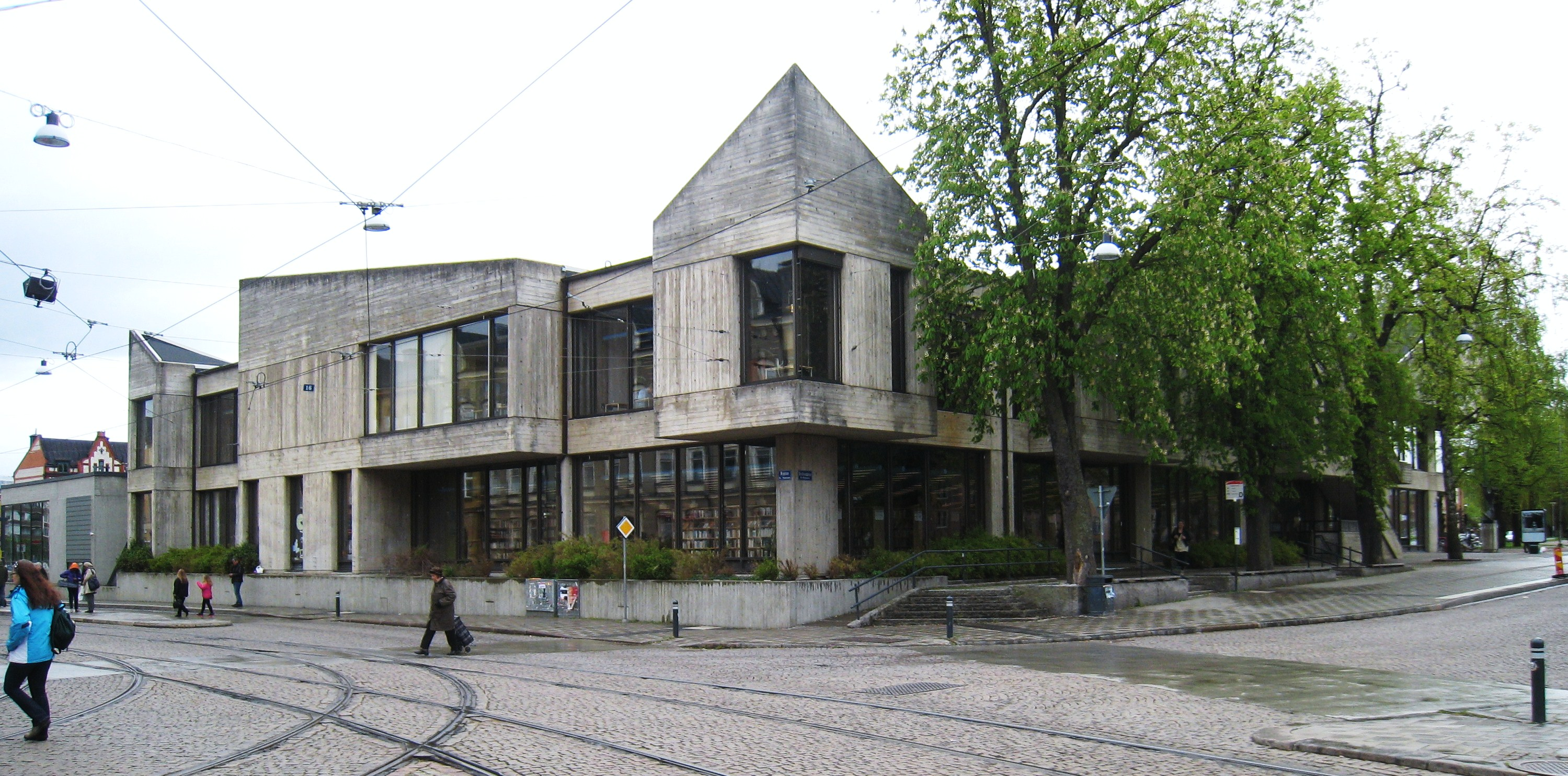 Norrköping public library